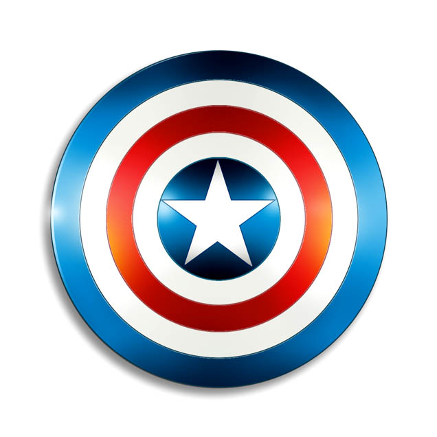 Original photoshop illustration representing Captain America's shield, as depicted in Captain America Comics #3 (May 1941).